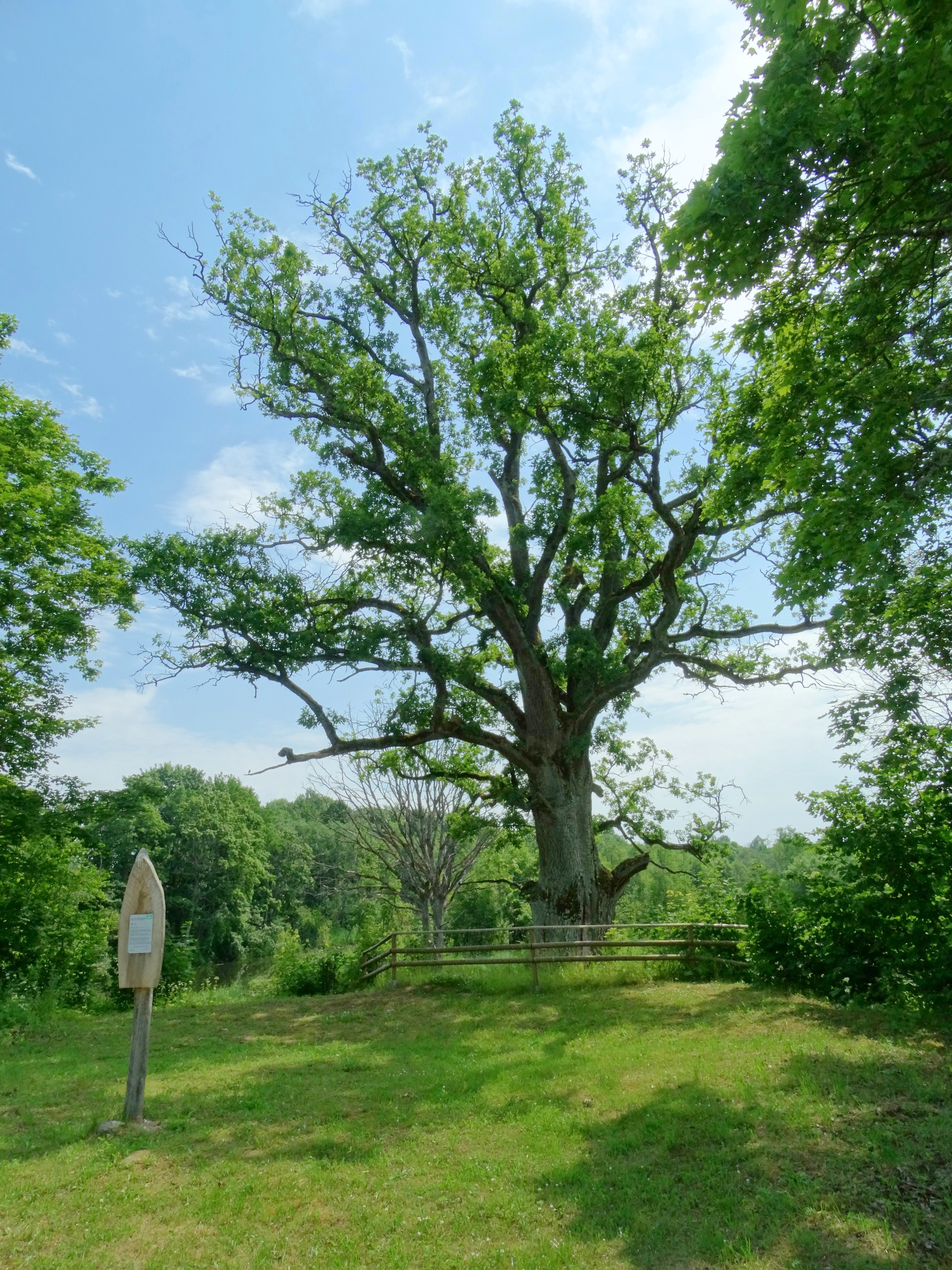 Pavirvytis manor oak, Telšiai district, Lithuania